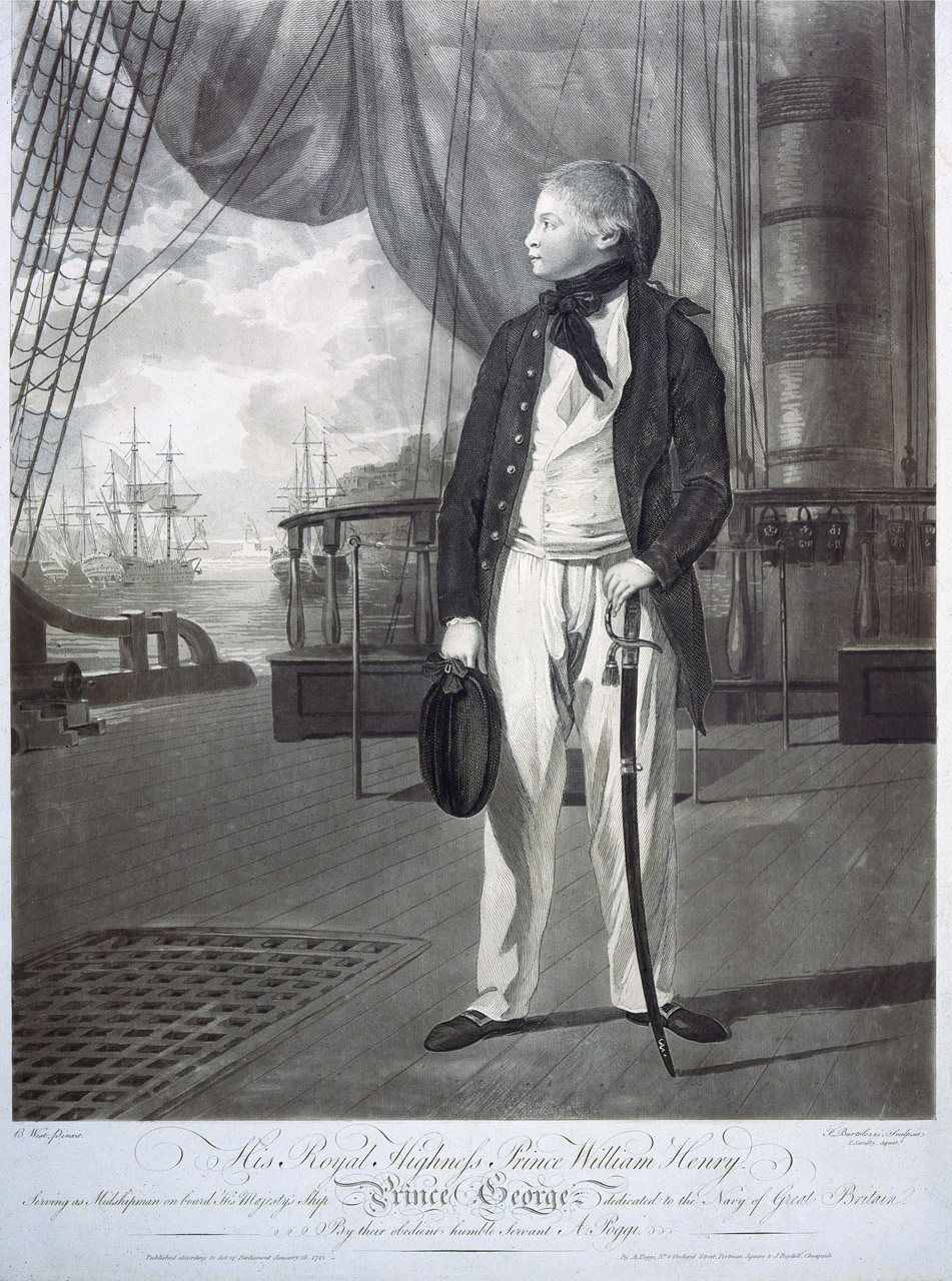 His Royal Highness Prince William Henry, Serving as Midshipman on board His Majesty's Ship Prince George B0076 PAH5531. Published 15 January 1782. Bartolozzi after Sandby. Prince William Henry, third son of King George III, entered the Navy during the War of American Independence and first met young Captain Nelson at New York while a midshipman in Lord Hood’s flagship there. He became a competent officer but lacked tact and judgement. As captain of the frigate ‘Pegasus’ he later served under Nelson in the West Indies in 1784-85, at a time when Nelson was making himself unpopular trying to enforce the Navigation Acts that forbade direct trade between British possessions and the newly independent United States. Nelson also backed the Prince in an intemperate dispute with his first lieutenant, which further dented his reputation at the Admiralty and at Court, where William was out of favour. The prince, later King William IV, remained a loyal friend of Nelson all his life.